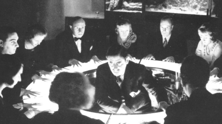 The alleged clairvoyant medium Erik Jan Hanussen (middle) at a an illuminated séance.